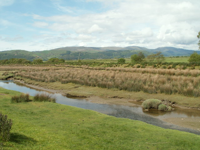 Clettwr below Craig y Penrhyn. The canalised part of the Clettwr, draining the farmland on the banks of the Dyfi.